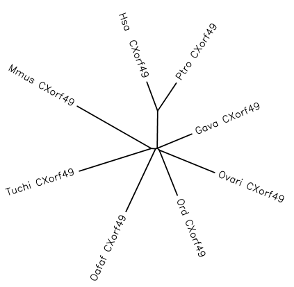 Phylogenetic tree of CXorf49 made with some of the orthologs. The tree was made using CrustalW in SDSC Biology Workbench. .